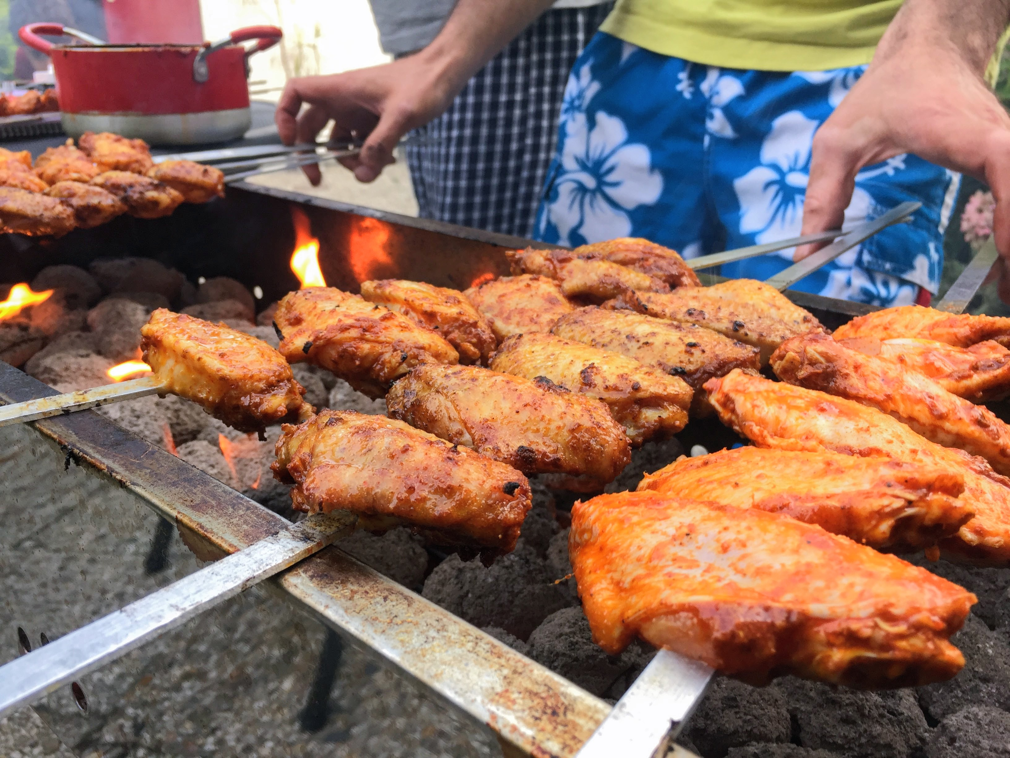 Skewer with marinated chicken wings barbequed on hot coals